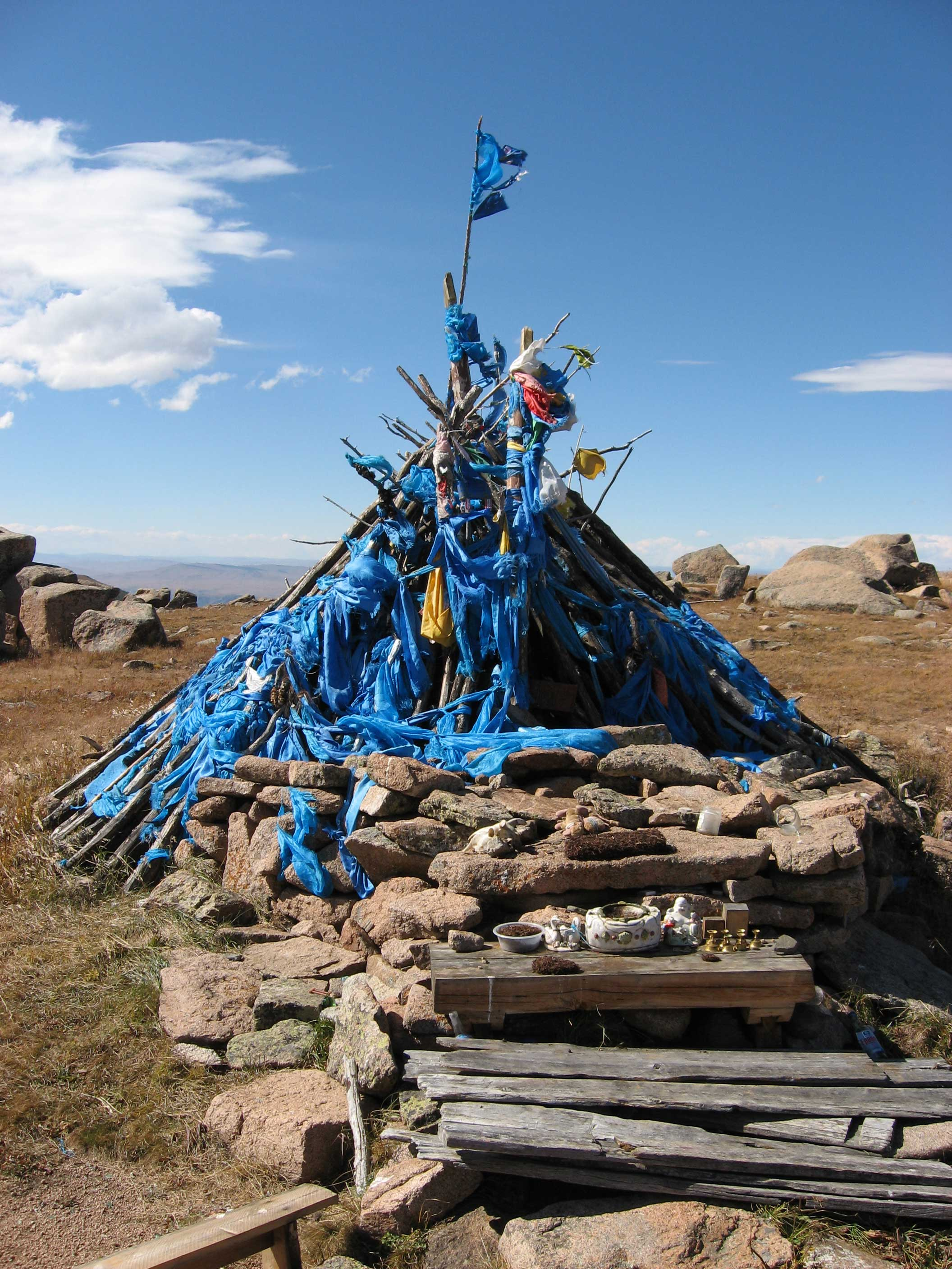 One of two ovoos on the top of Ikh Uul, a.k.a. Ikh Barzan Uul, the most prominent mountain just south of Bürentogtokh sum center. Note the small bench with the offerings